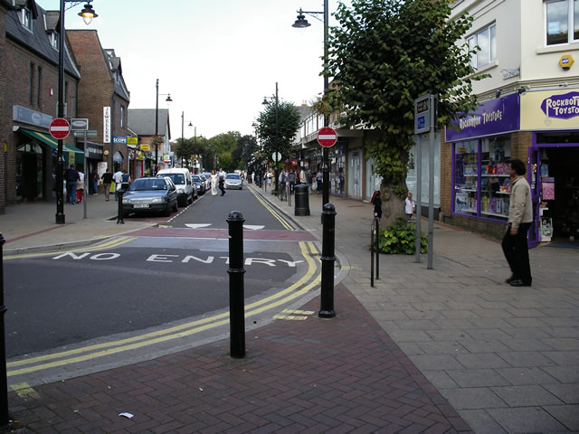 High Street, Eastleigh, Hampshire, UK